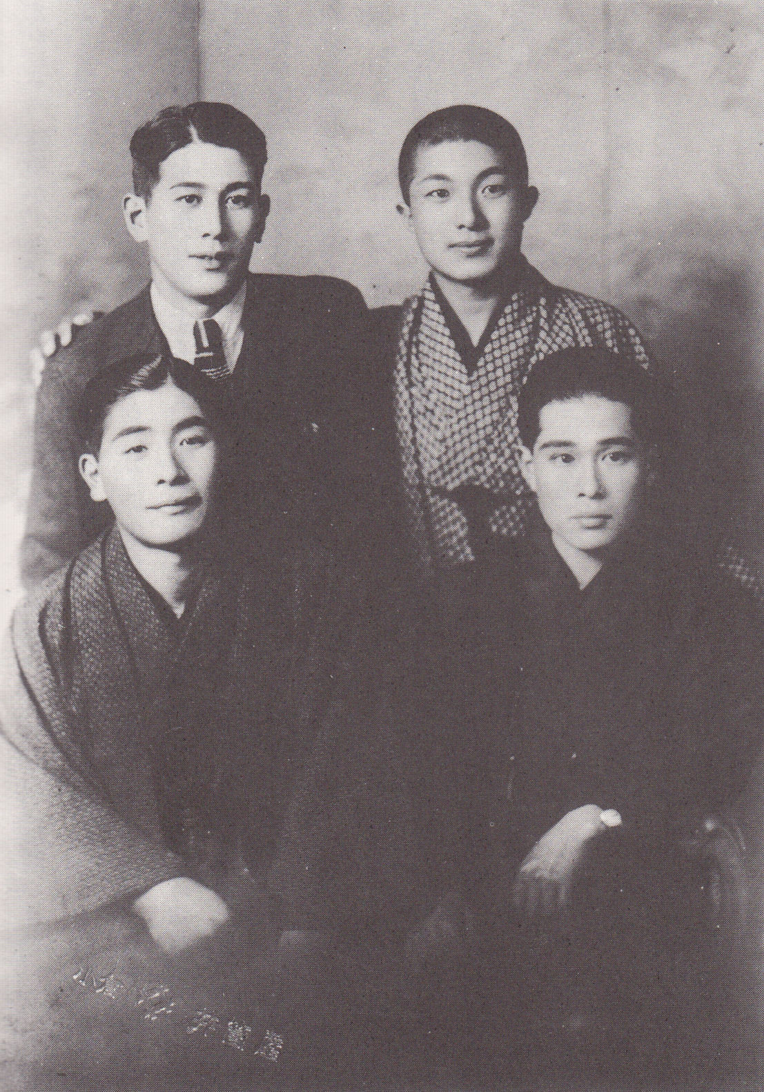 Japanese apprentice jockies of the early showa era. photo taken in around 1935.